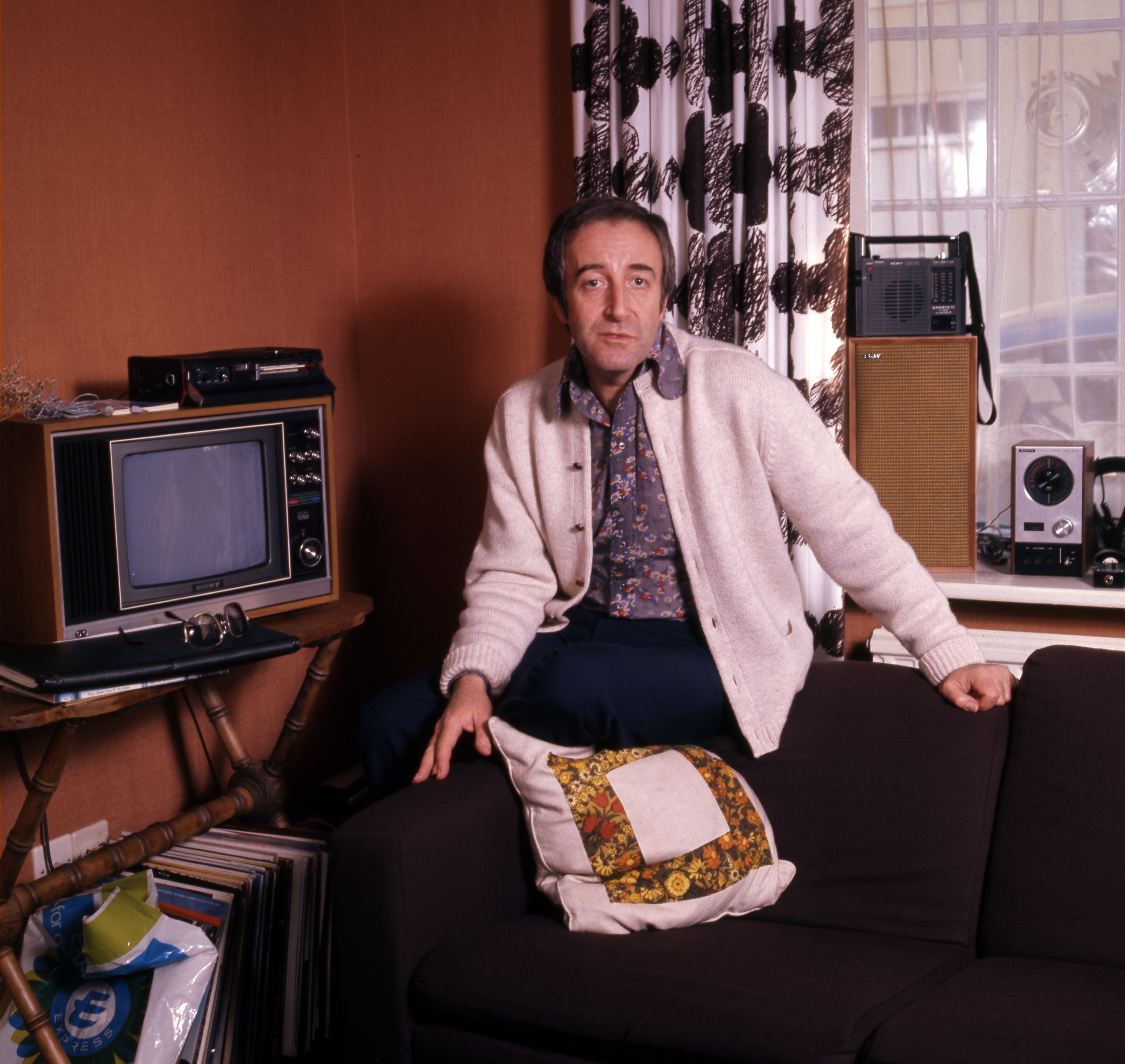 portrait of Peter Sellers at his home